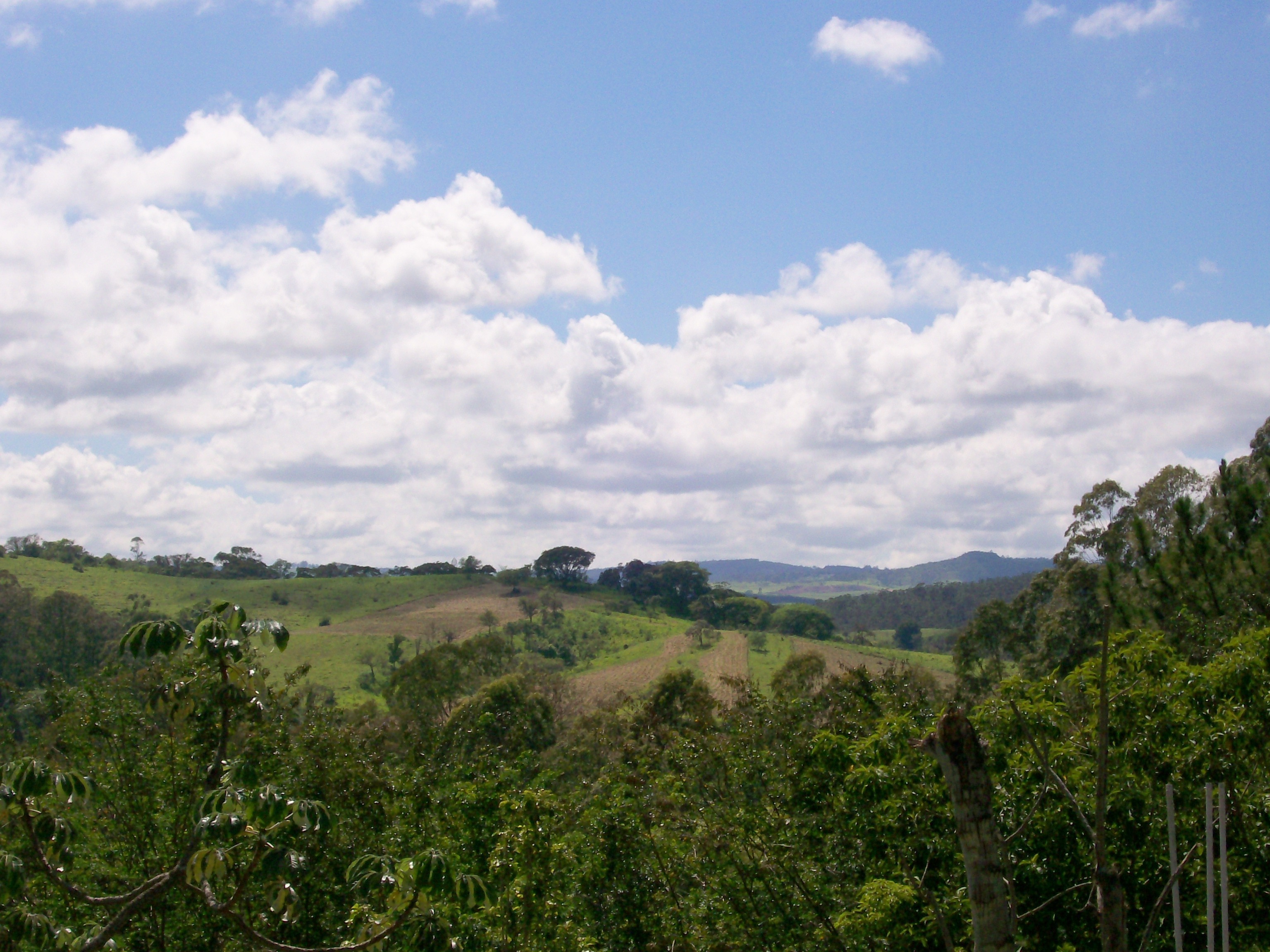 Serra das Cabras mountain range, as seen from Joaquim Egídio, Campinas, São Paulo, Brazil.